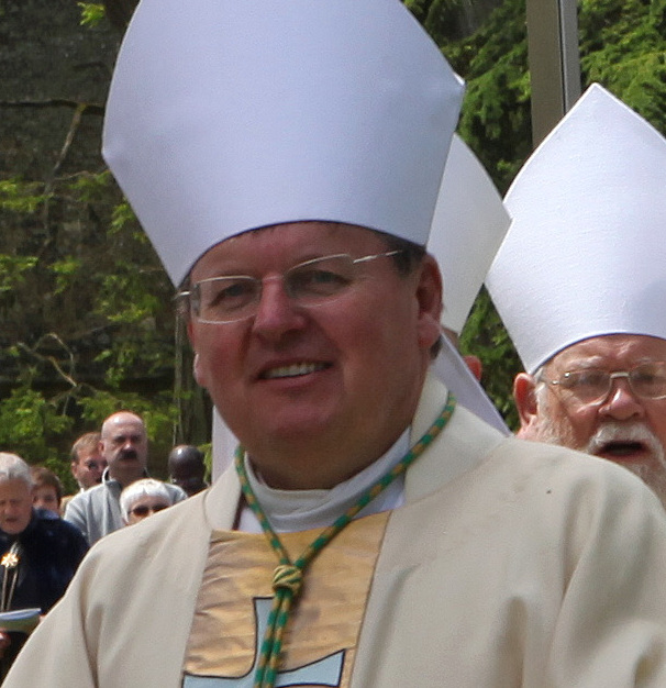 Church of England bishops during the National Pilgrimage to Walsingham, 2012